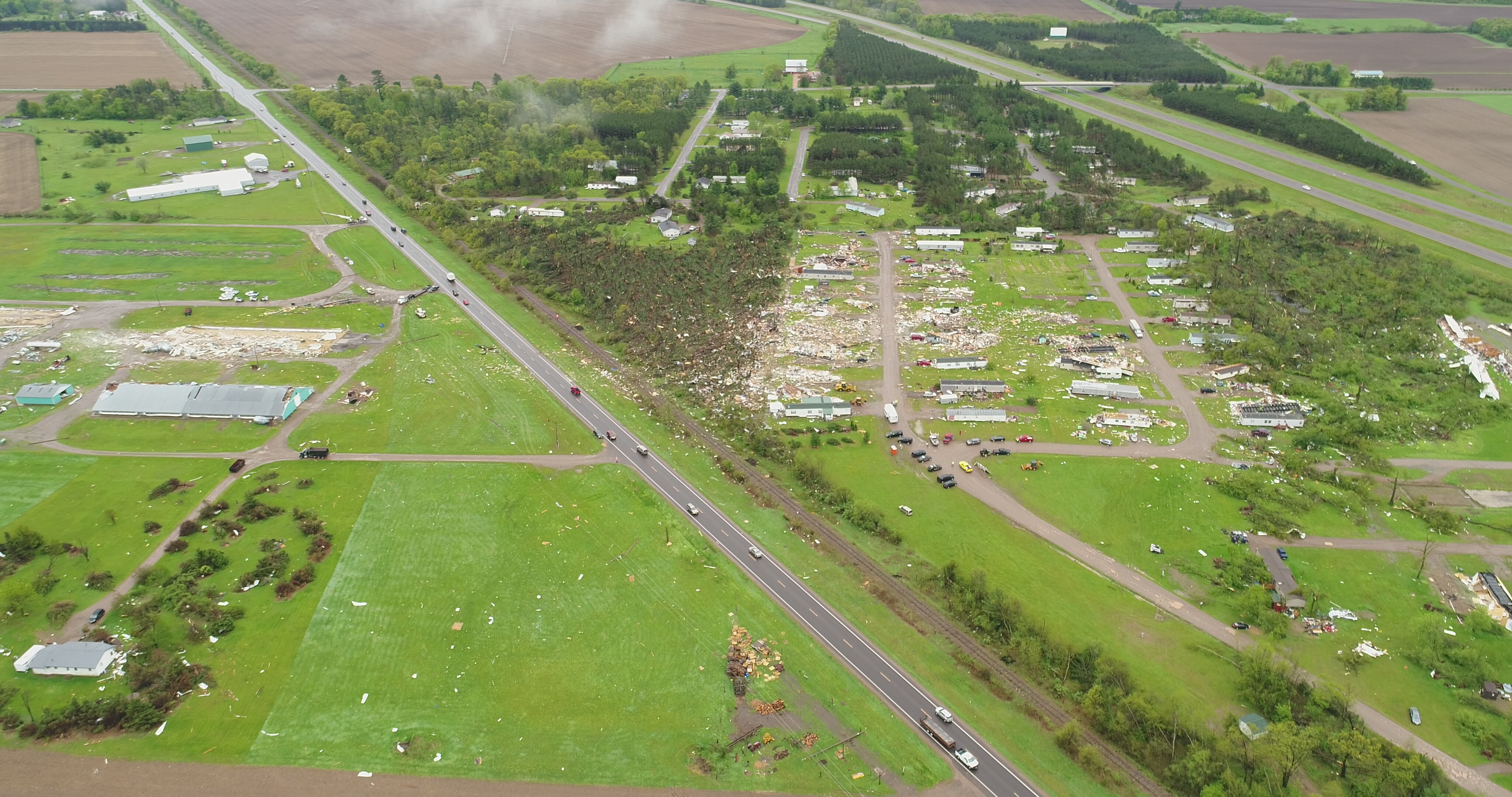 Severe damage to a trailer park from a tornado on May 16, 2017